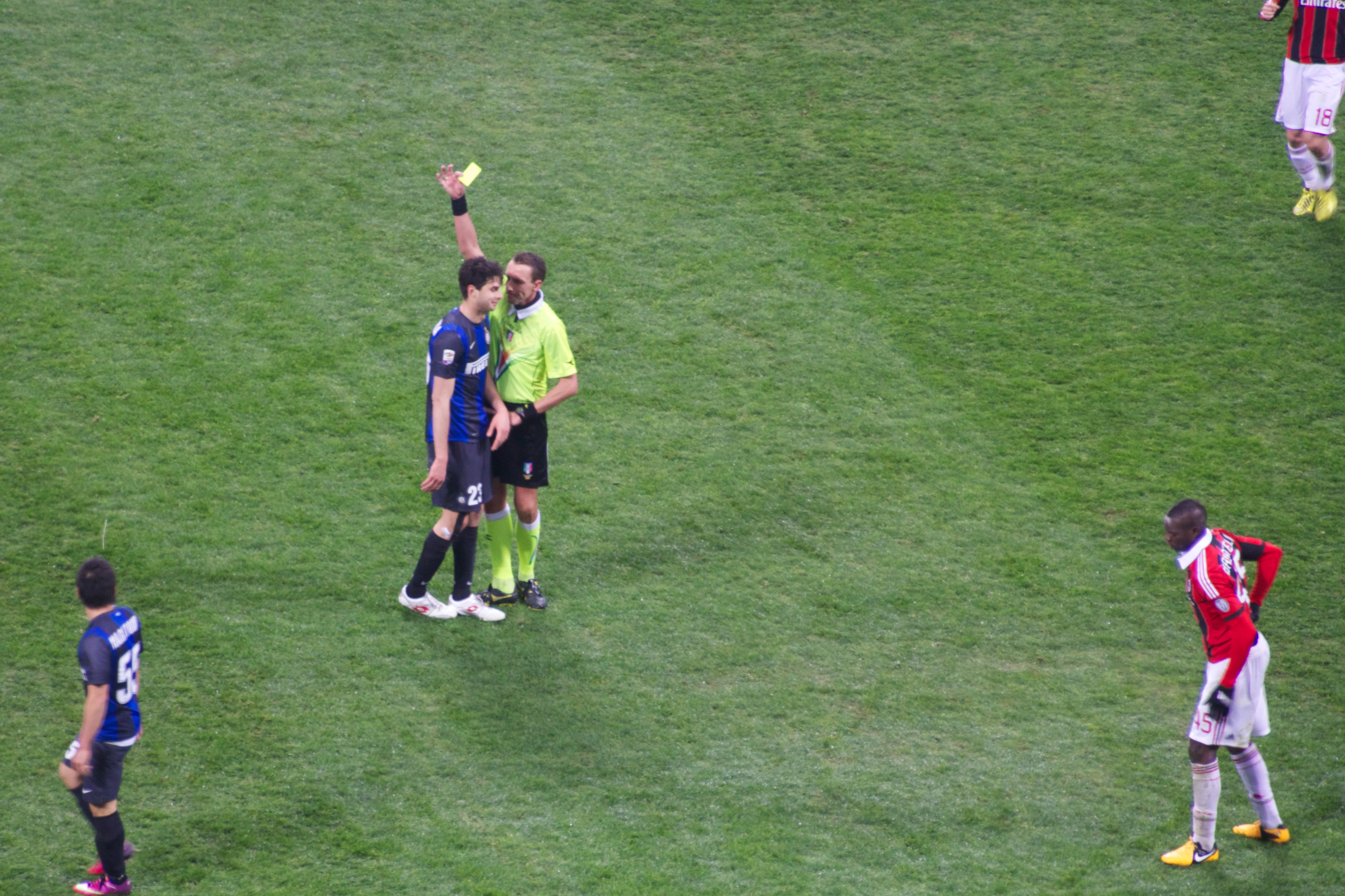 Yellow card for Andrea Ranocchia in FC Internazionale Milano-AC Milan, february 2013